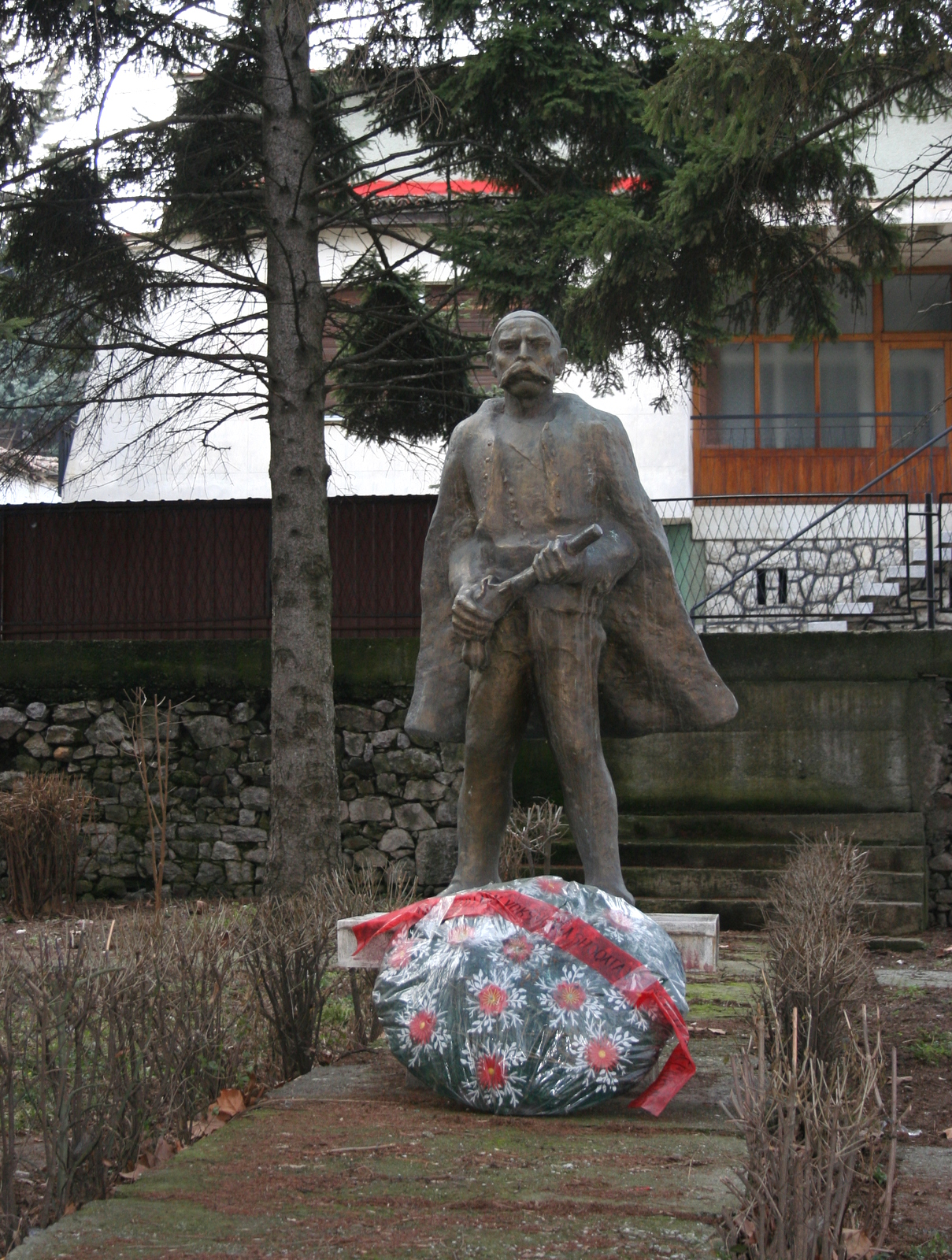 Sylejman Vokshi